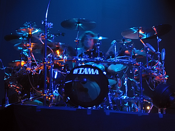 David SilveriaKorn 03/31/2006 Milwaukee